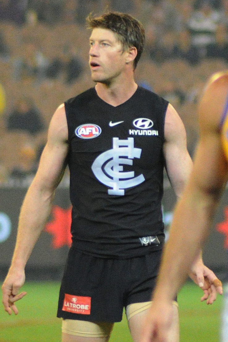 Sam Rowe during the AFL round five match between Carlton and West Coast on 21 April 2018 at the Melbourne Cricket Ground in Melbourne, Victoria.